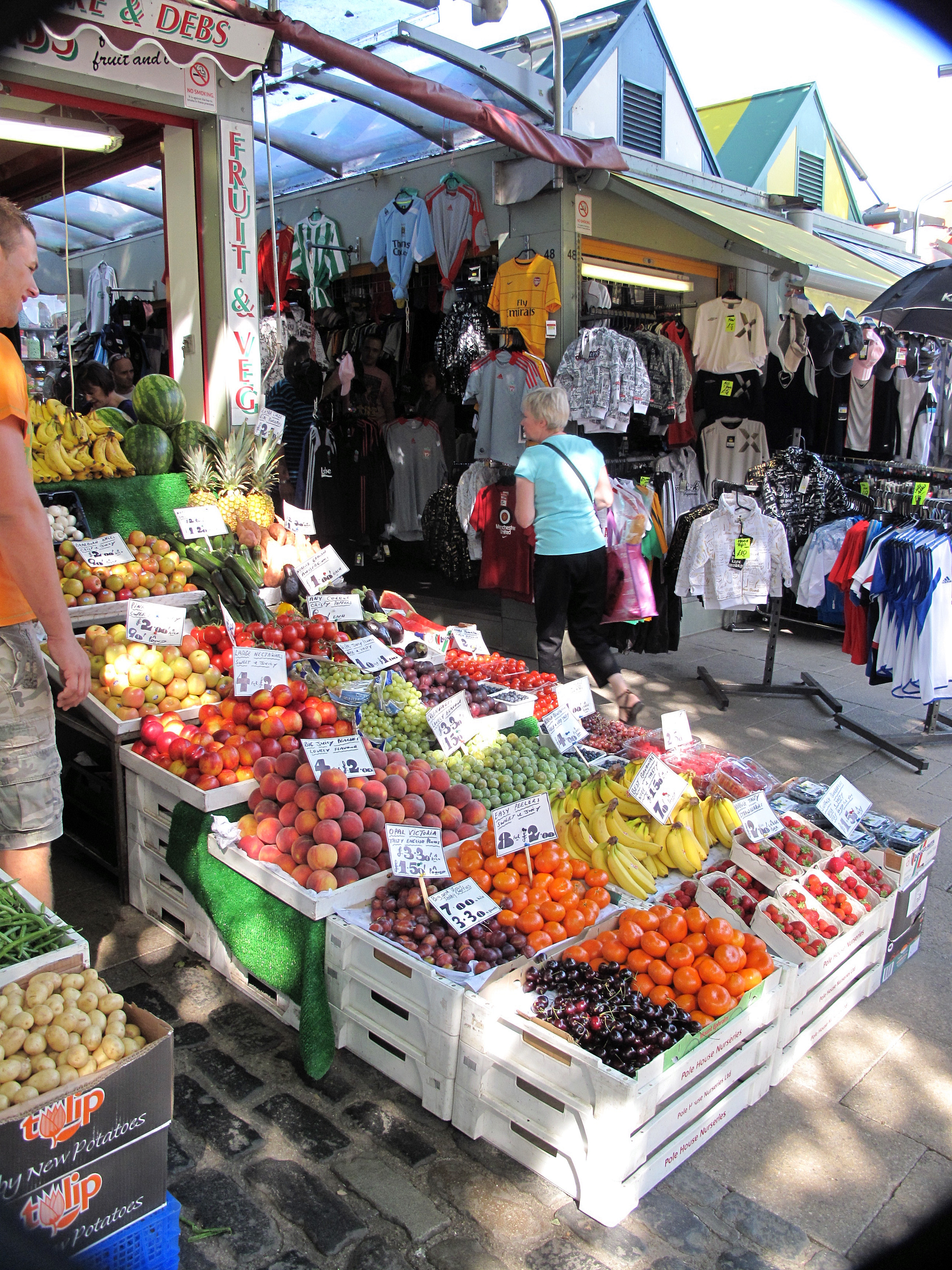 Norwich Market on Gaol Hill.